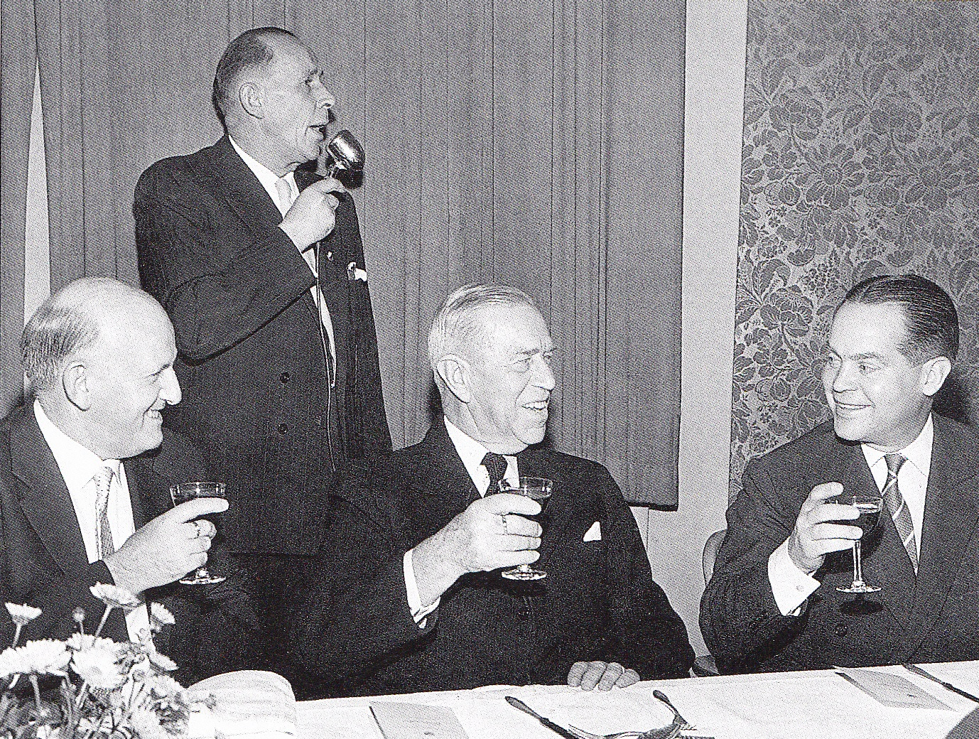 Adolf Johnson, founder of IFK Kristianstad (sitting in the middle), Gösta Henningsson, chairman of IFK Kristianstad 1950–1959 (sitting to the left), Curt Alsterlund, commander of the I6 regiment (sitting to the right) and Hilbert Bengtsson, chairman of the IFK Kristianstad football team in the 1950s, at the celebrations of IFK Kristianstad's 60th anniversary.